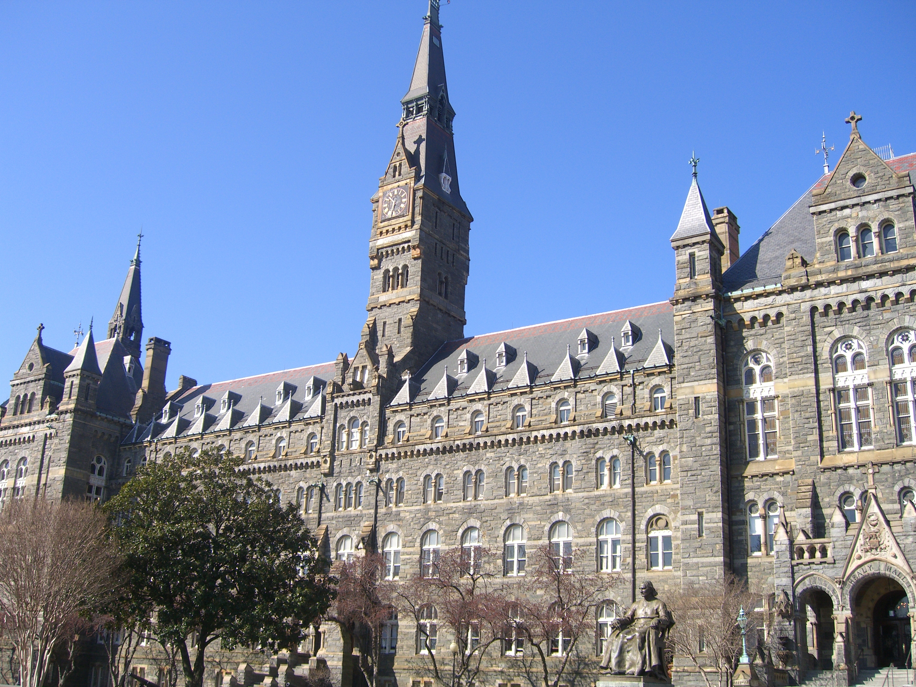 georgetown campus picture used for NAIMUN